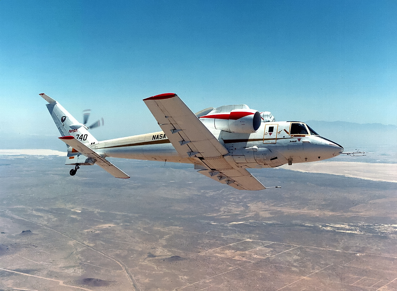 A Rotor Systems Research Aircraft (RSRA) is seen here on a flight test at the Dryden Flight Research Center, Edwards, California, in spring of 1984.